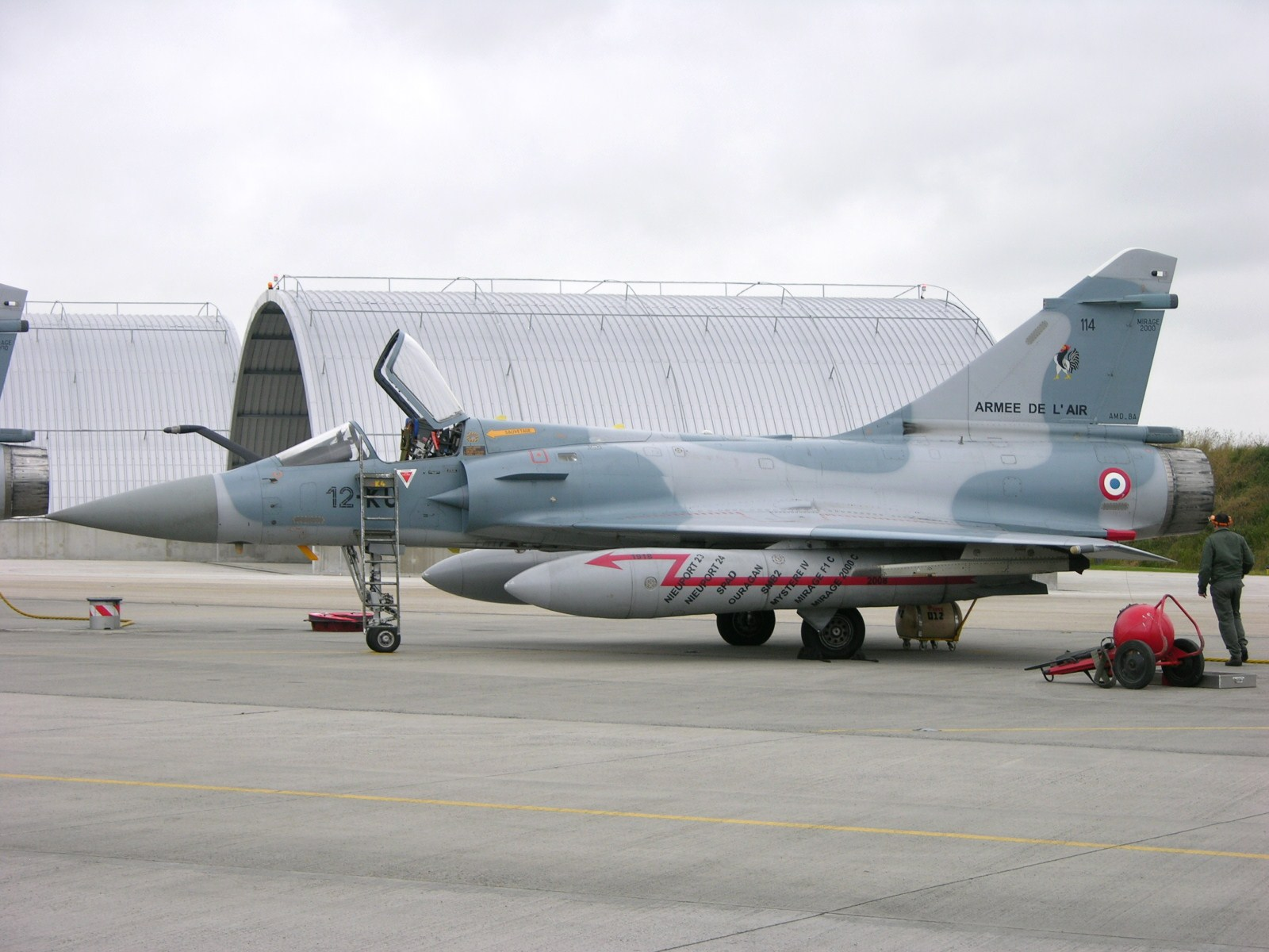 The fuel tank on this carries the names of all the aircraft operated by the squadron. Cambrai, in Northern France, is one of many bases in France scheduled to close soon.